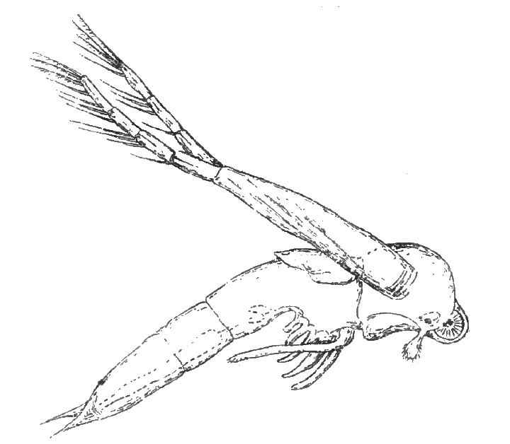 Late larva of "Leptodora hyalina" (= Leptodora kindtii)